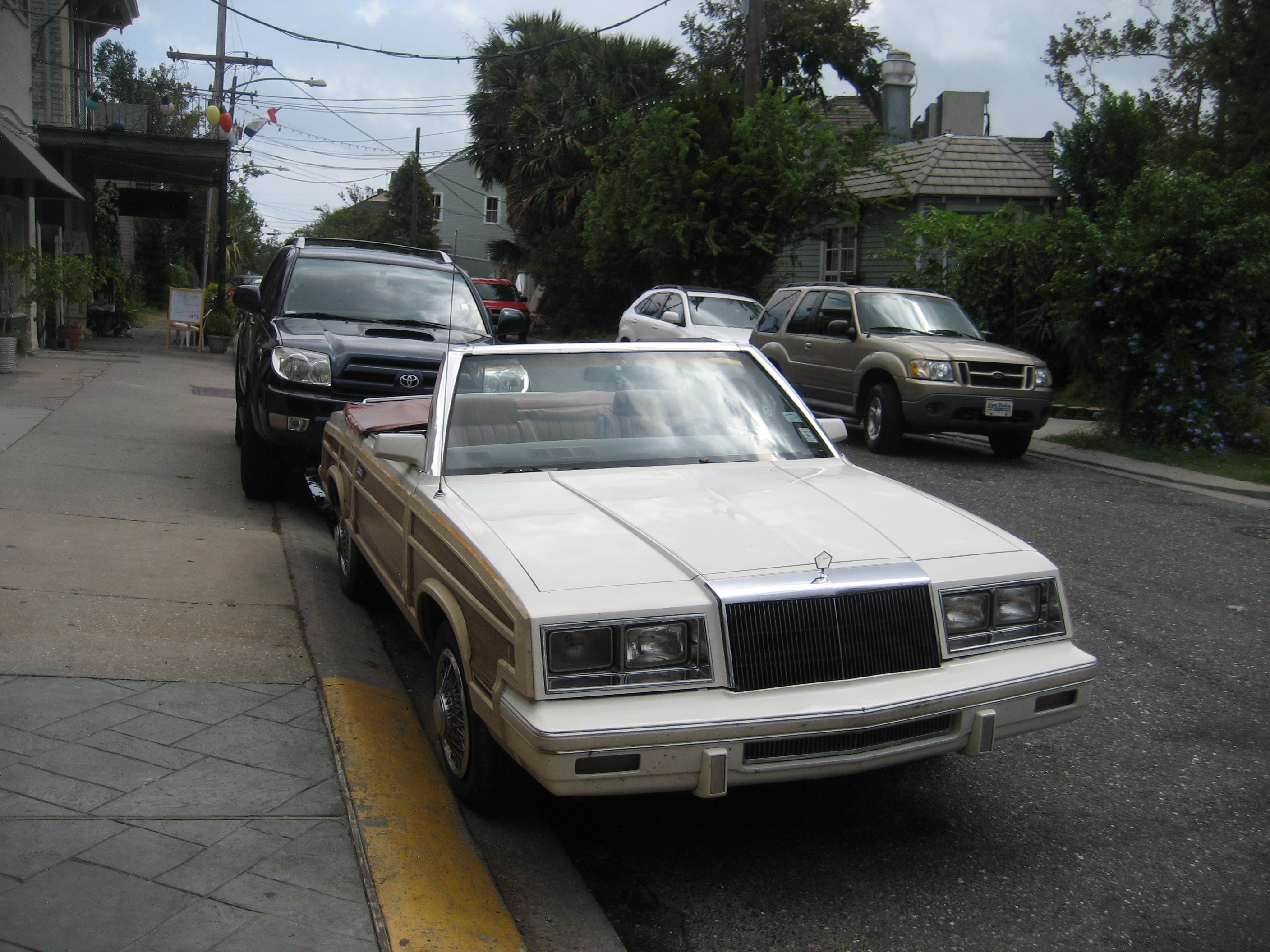 Chrysler convertable seen in Esplanade Ridge section of New Orleans